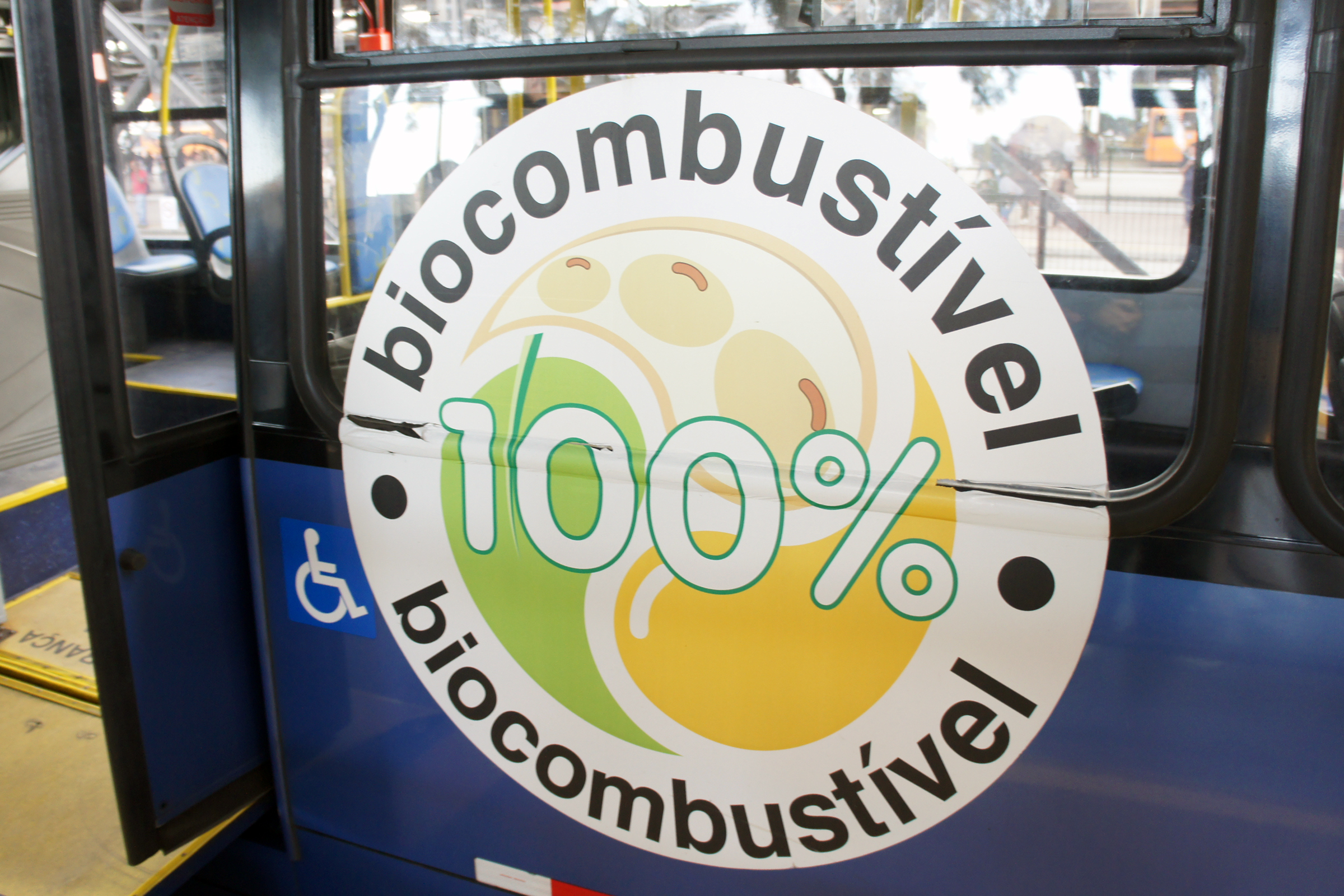 Logo used in Curitiba Linha Verde (Green Line) buses to identify their used of 100% biofuel (B100)